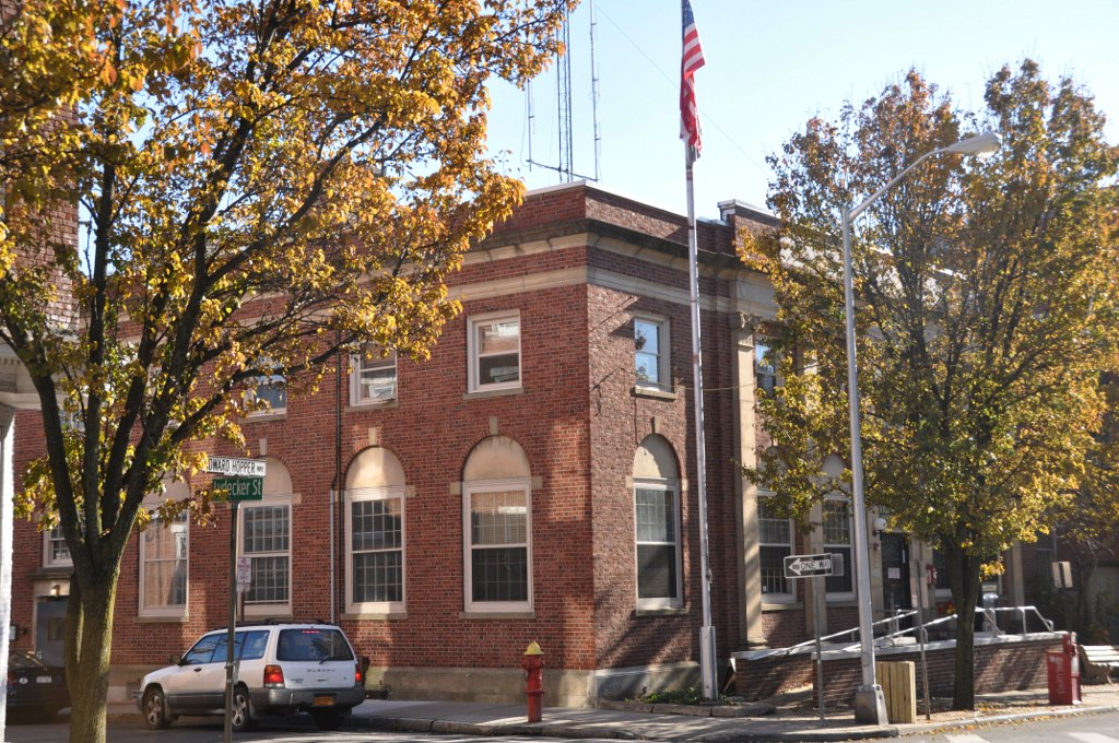 The Village Hall of Nyack, New York.